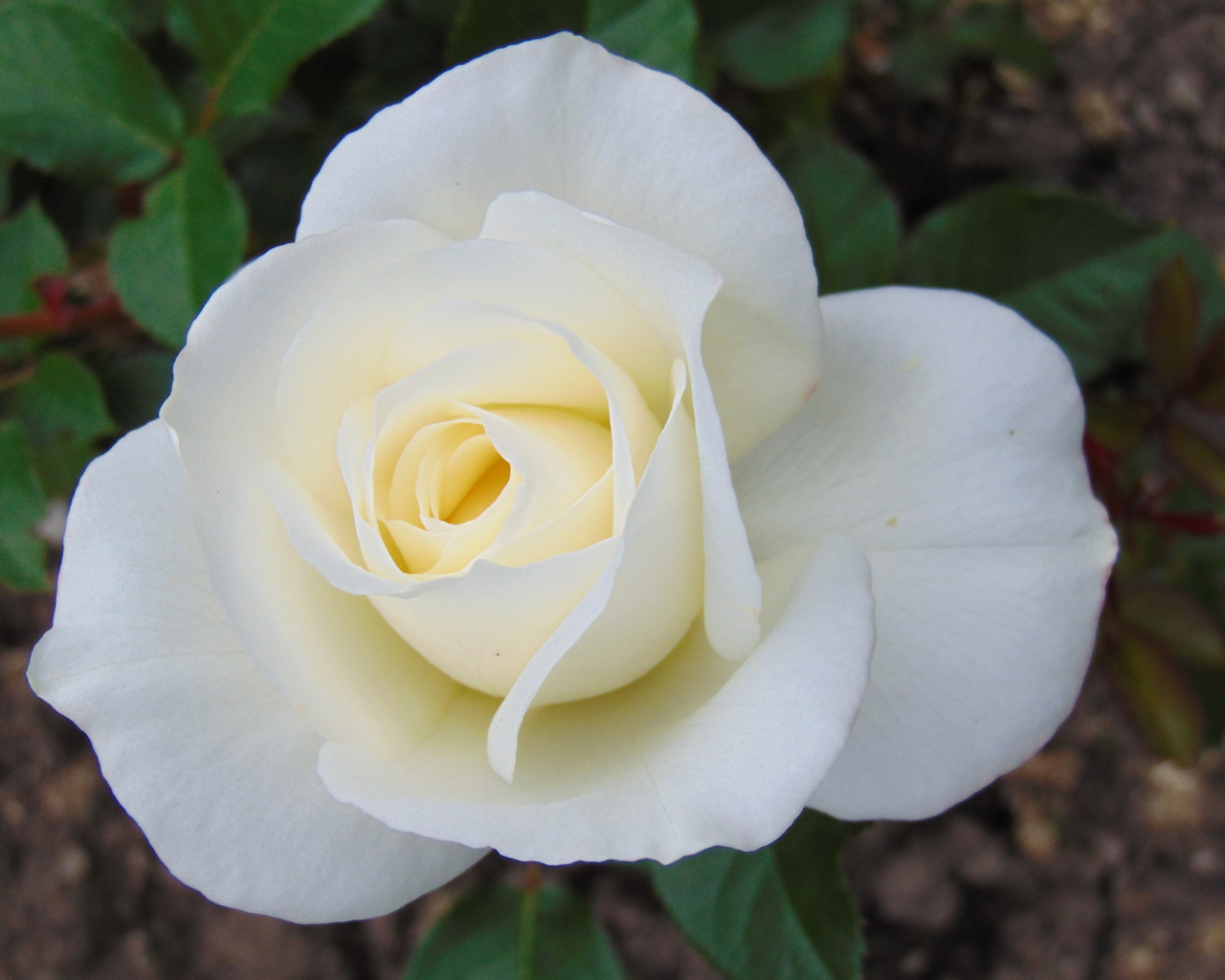 Jardin Botanique de Montréal, Rosa 'Moondance'